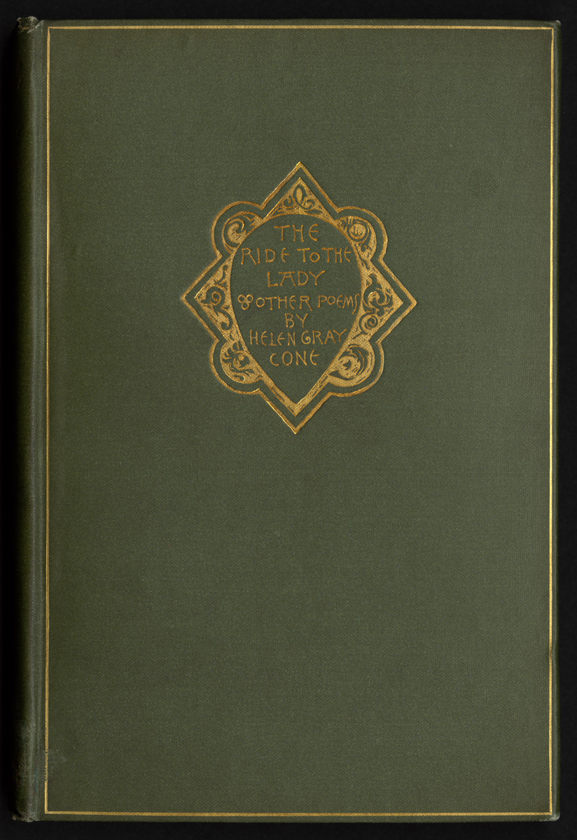 File name: 06_04_000113Title: CONE(1891) The ride to the lady and other poemsDate issued: 1891Genre: Book coversNotes: Cone, Helen Gray, 1859- (Author)Collection: Sarah Wyman Whitman BindingsLocation: Boston Public Library, Special CollectionsRights: No known copyright restrictions.